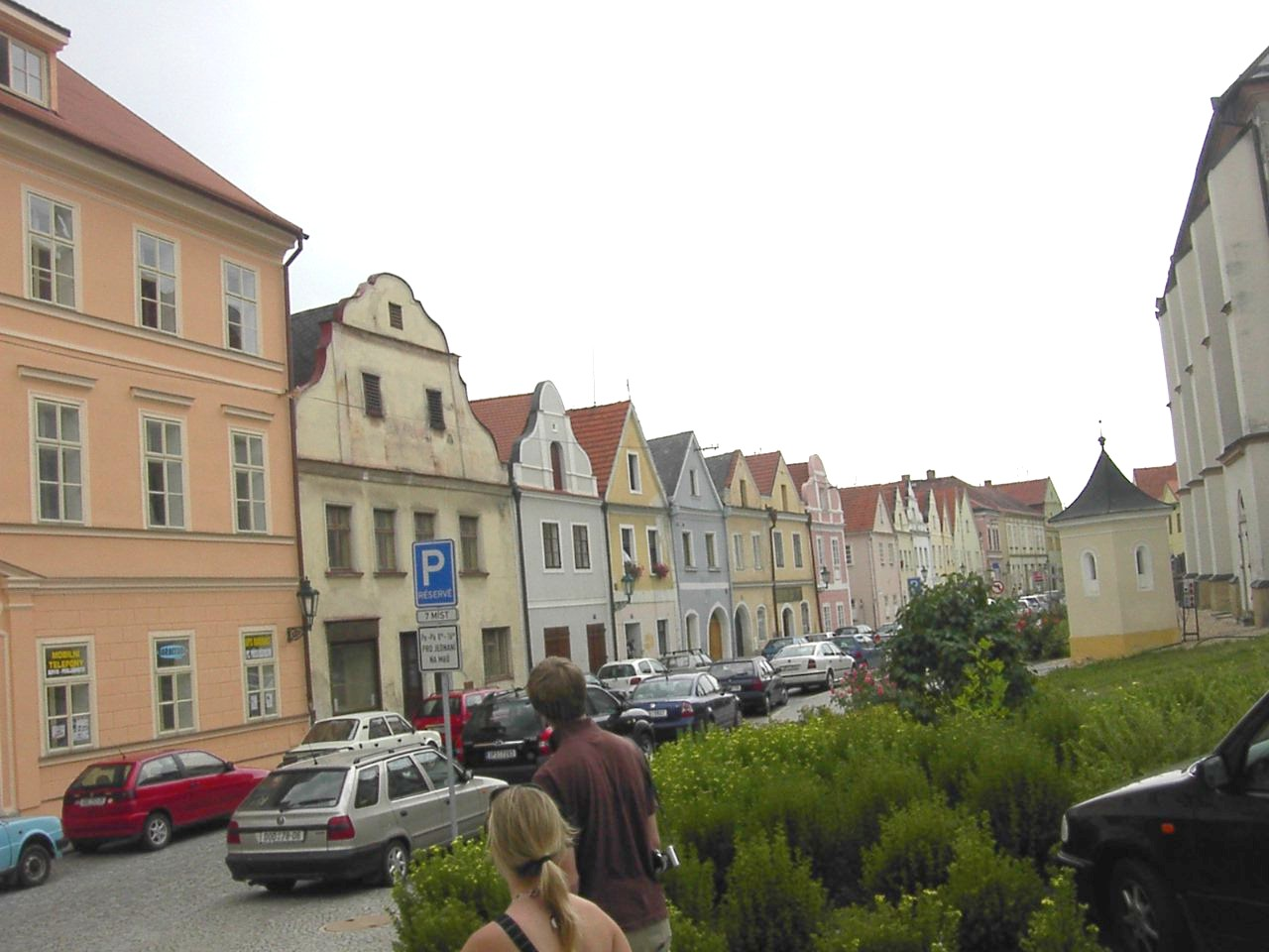 old renesaince houses in Horšovský Týn.